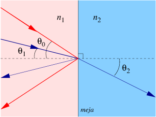 Diagram of total internal reflection (in Slovene).